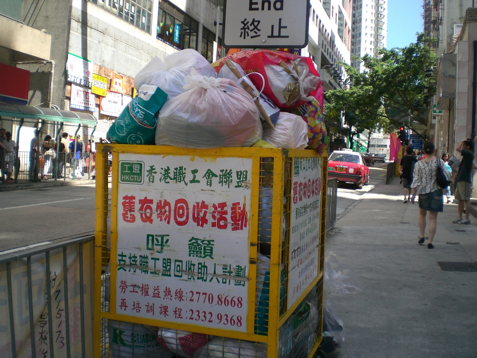 二手貨衣服回收運動. Used goods. Second hand clothes recycle movement. Author= EarthFanZ